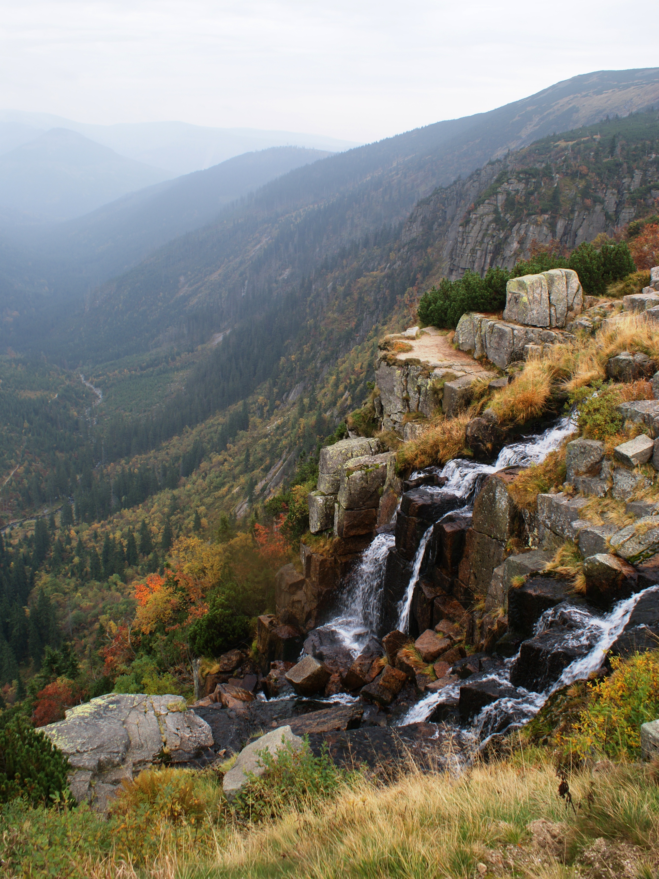 Pancavsky waterfall on the river Pancava in Krkonose Mts., Czech Republic